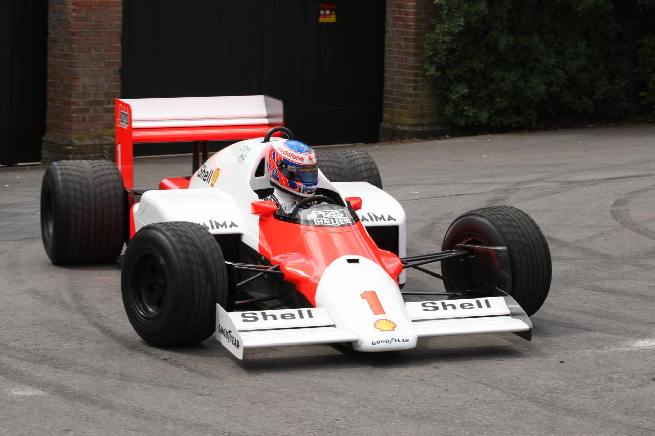 Jenson Button driving an Alain Prost's McLaren MP4/2C at goodwood